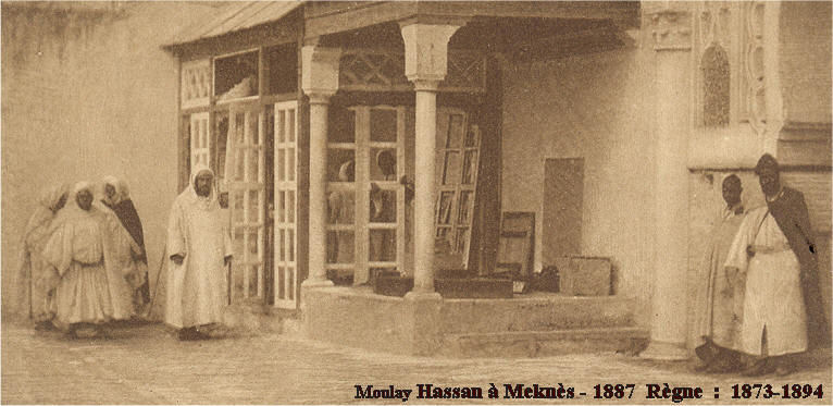 Moulay Hassan I of Morocco in Meknes in 1887